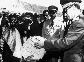 Photo of Shah distributing land deeds.